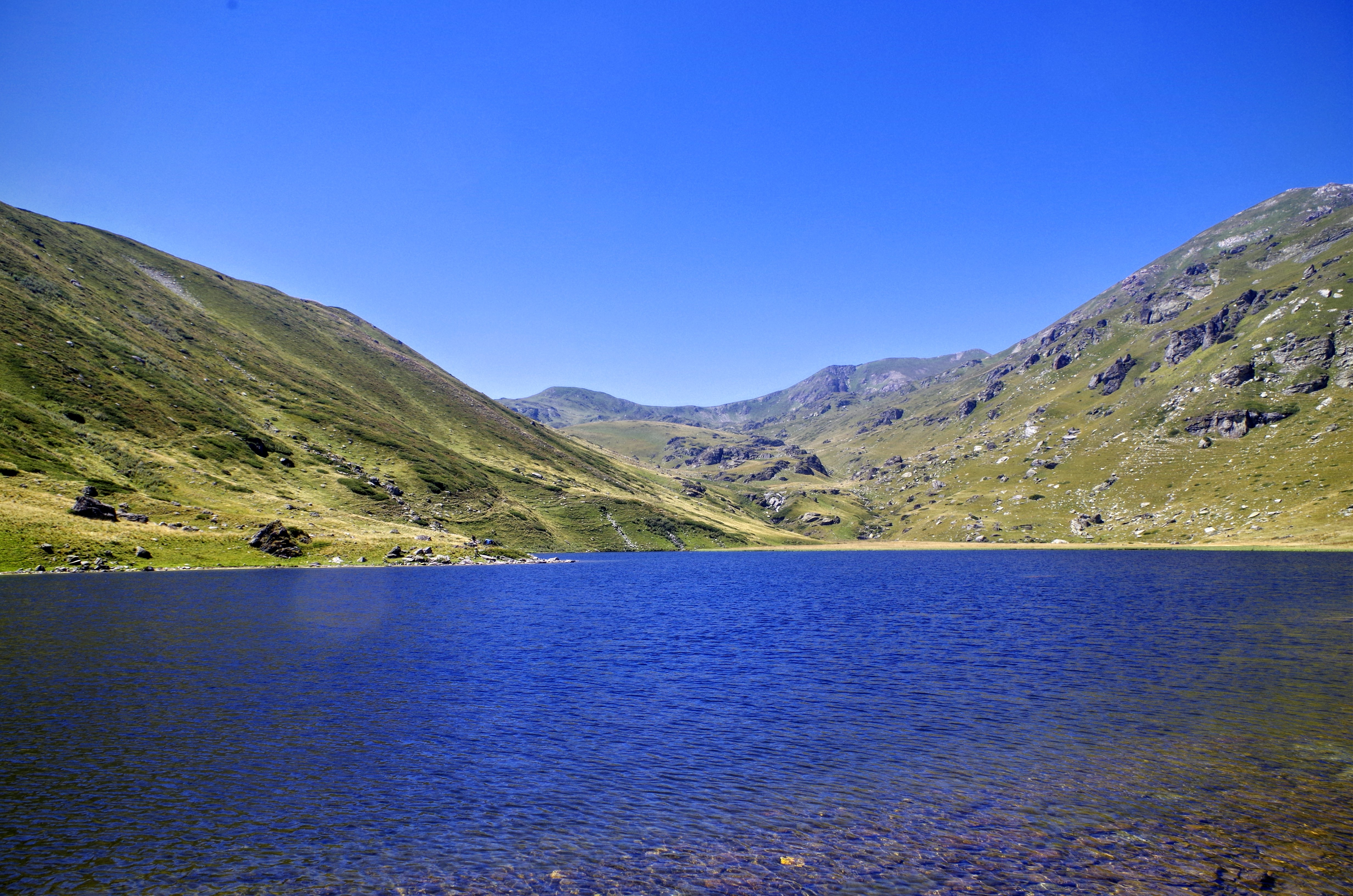 Bogovinje glacial lake on Shar Mountain, Macedonia